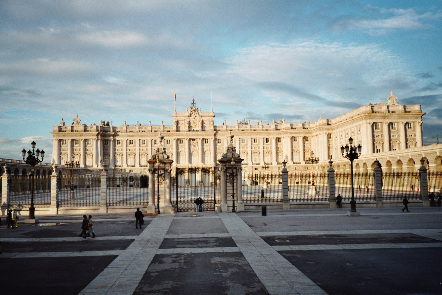 Description: The Palacio Real de Madrid (Royal Palace) in Madrid. Source: Self-made, I release it into the public domain. Other Version